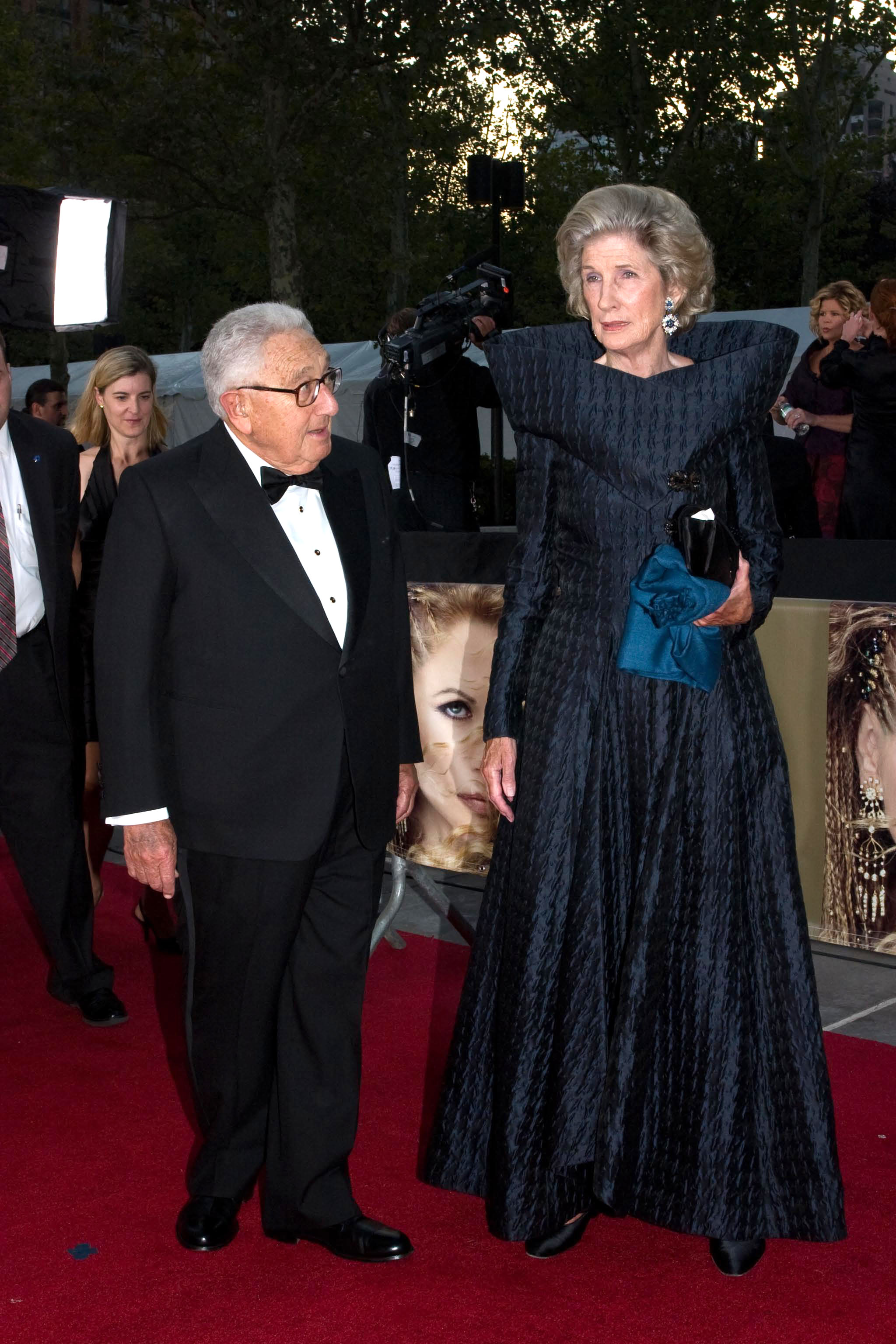 Henry and Nancy Kissinger at the Metropolitan Opera opening in 2008. © Rubenstein, photographer Martyna Borkowski